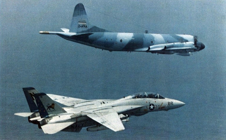 A U.S. Navy Grumman F-14A-105-GR Tomcat (BuNo 160921) from Fighter Squadron VF-213 Black Lions intercepting an Iranian Lockheed P-3F Orion over the Indian Ocean. VF-213 was assigned to Carrier Air Wing 11 (CVW-11) aboard the aircraft carrier USS America (CV-66) for a deployment to the Mediterranean Sea and the Indian Ocean from 14 April to 12 November 1981.